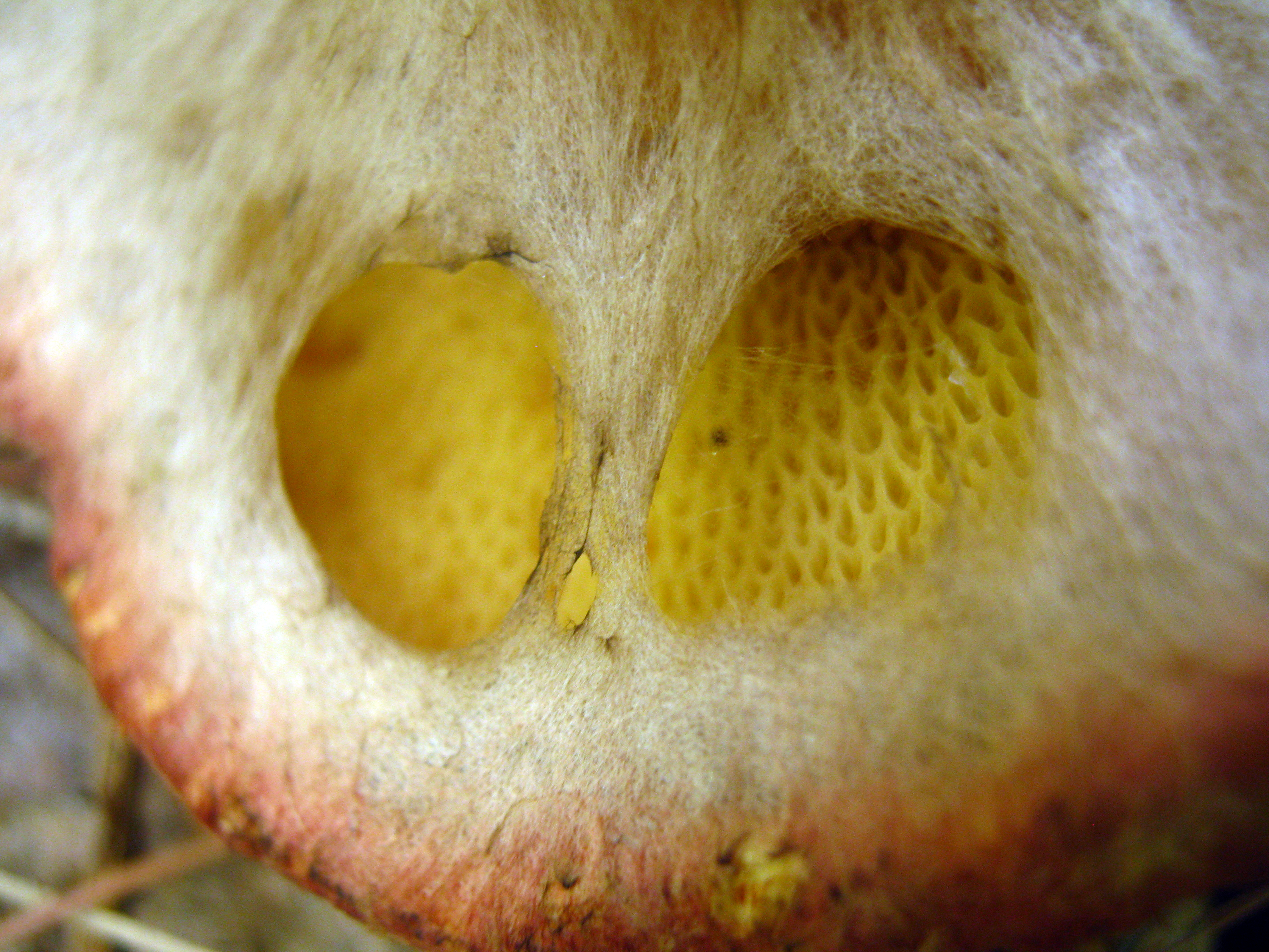 Underside of the cap of a fruit body of the fungus Suillus spraguei (Berk. & Curtis) Kuntze. The partial veil is beginning to tear. Levels adjusted by uploader.